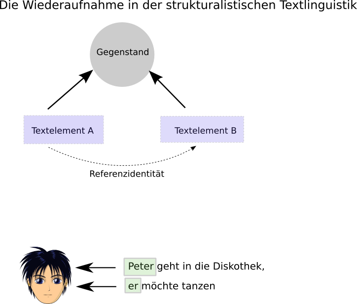 linguistics : cohesion of texts